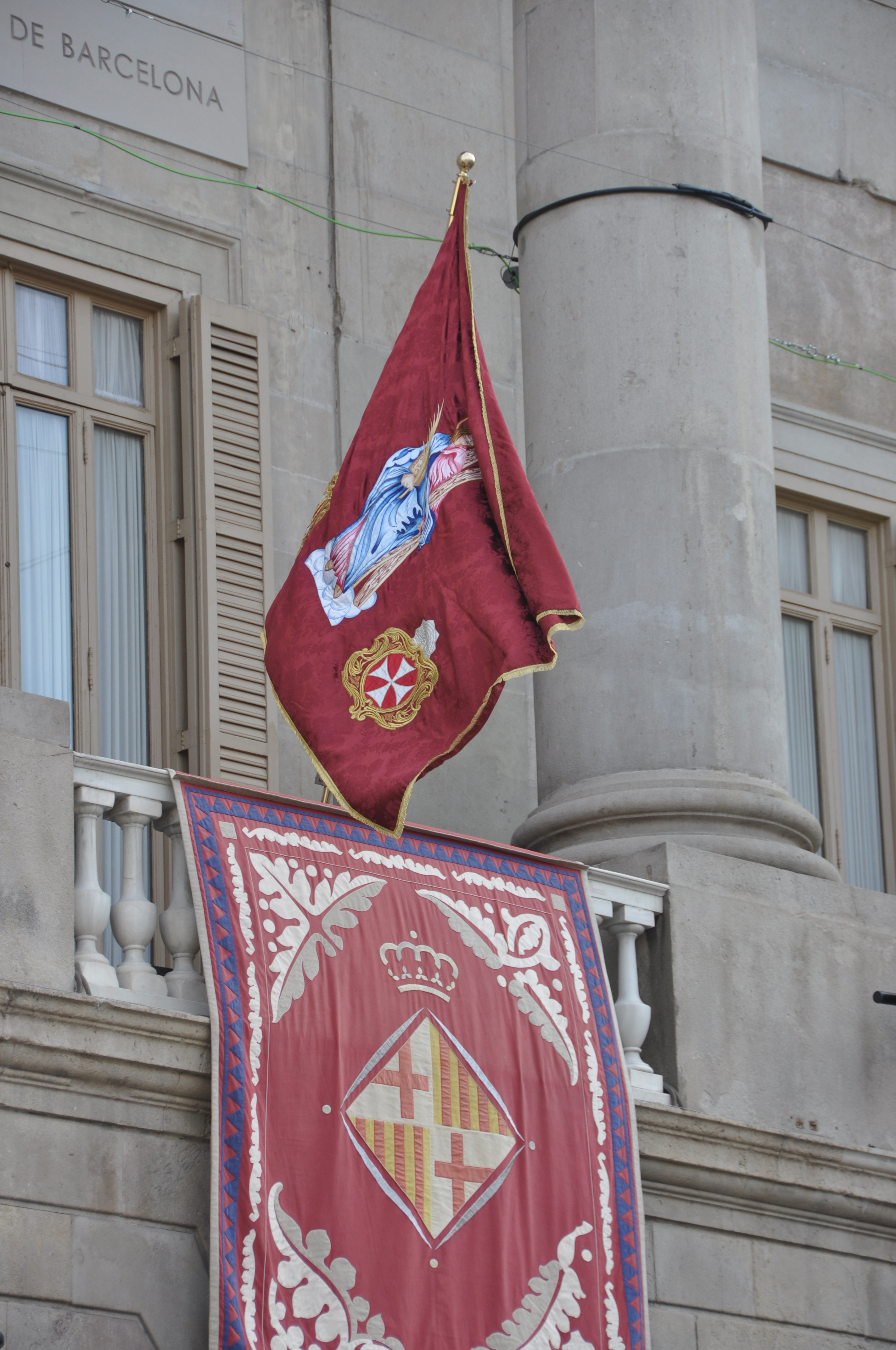 Saint Eulalia flag displayed at the balcony of Barcelona City Hall in Saint Eulalia day 2016